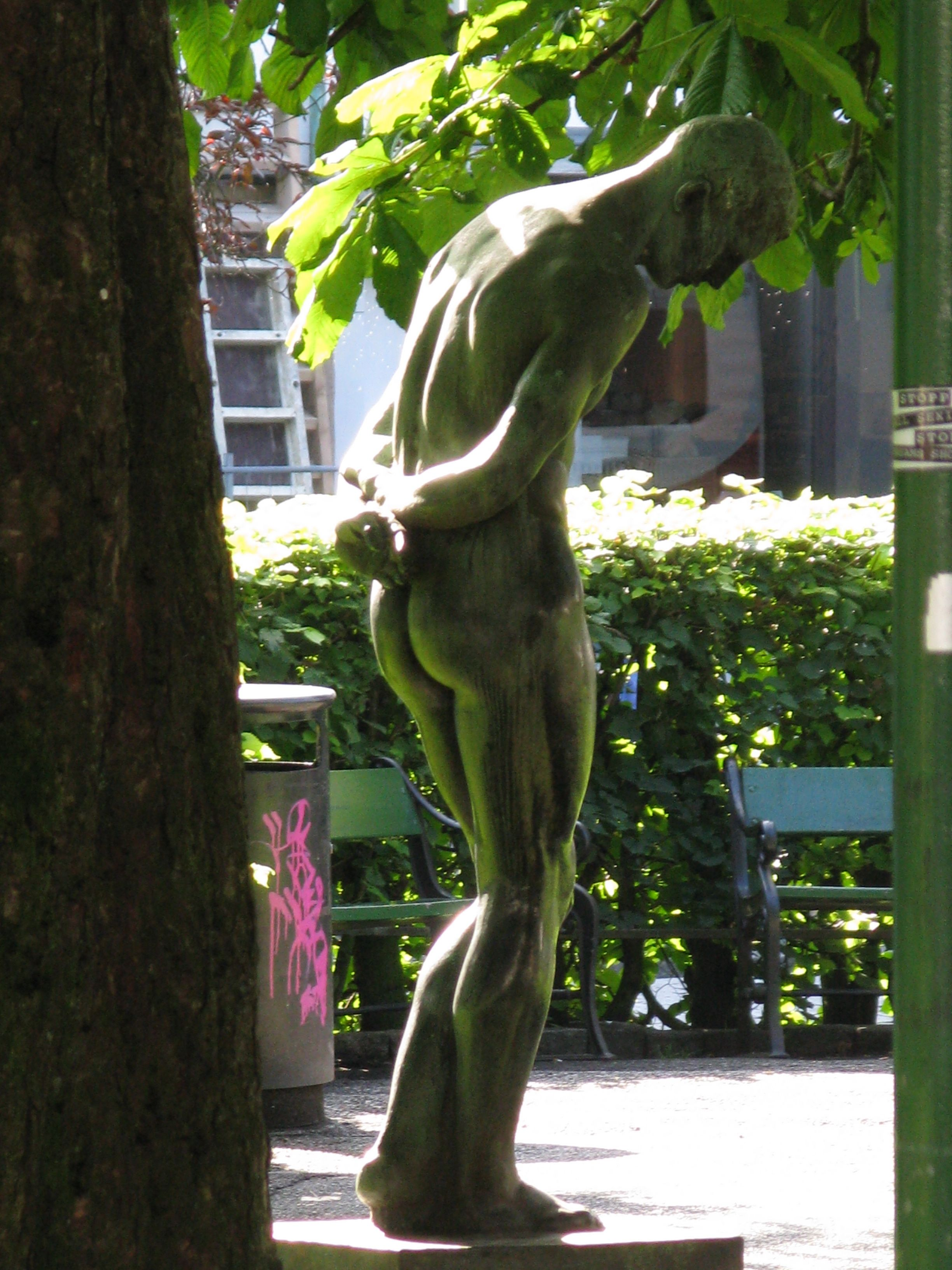 Ynglingen by Ingebrigt Vik at the theatre gardens in Bergen.